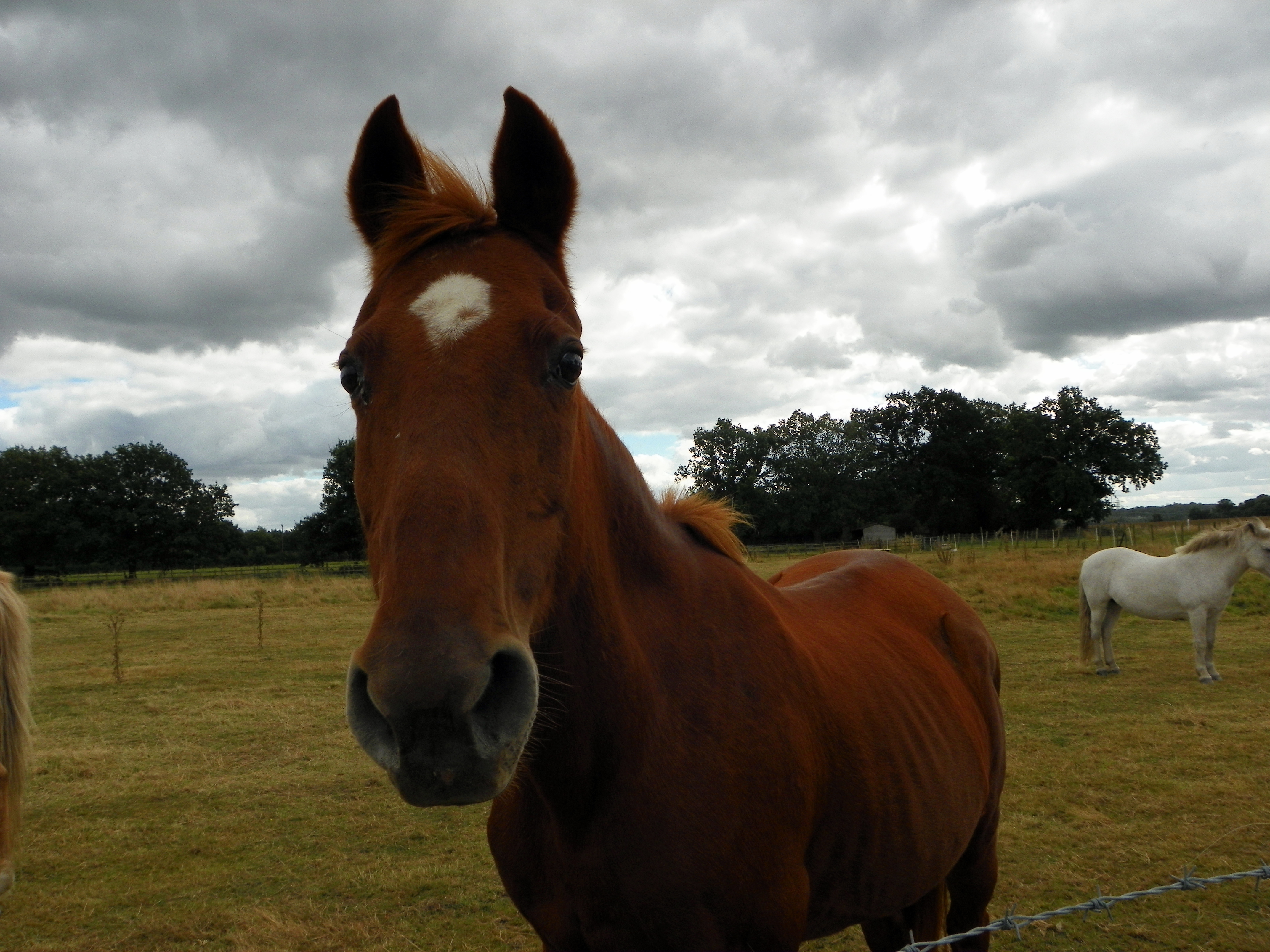 Horse (Equus ferus caballus) near Colney Heath, Hertfordshire, 19 September 2012.